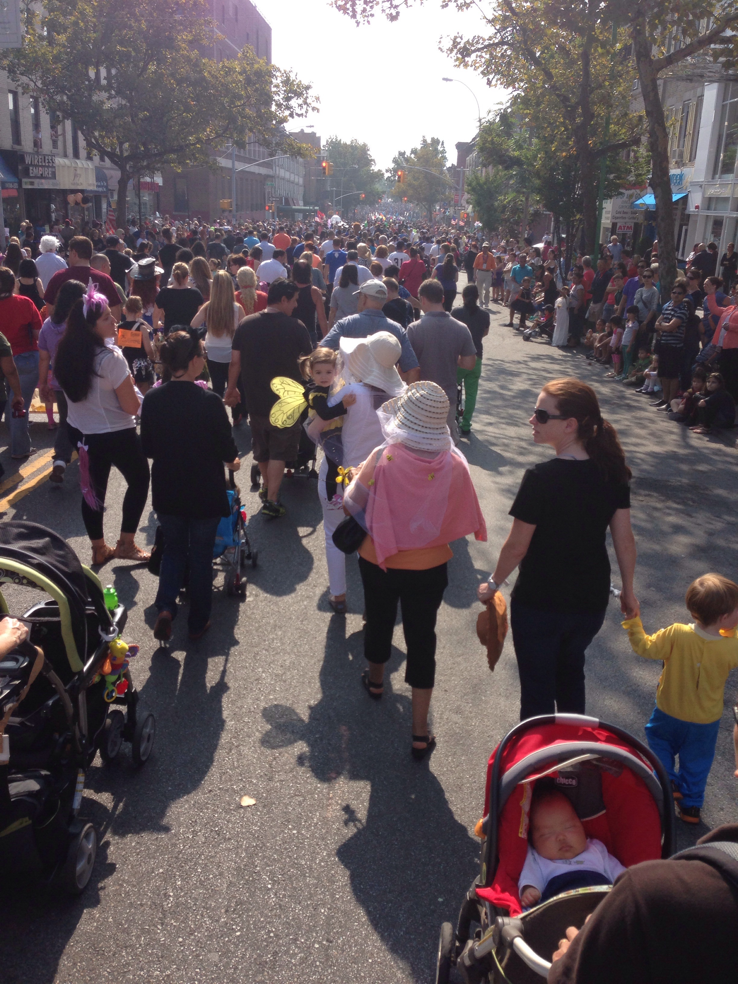 Marching in the Ragamuffin Parade with the kiddo. A Bay Ridge tradition.